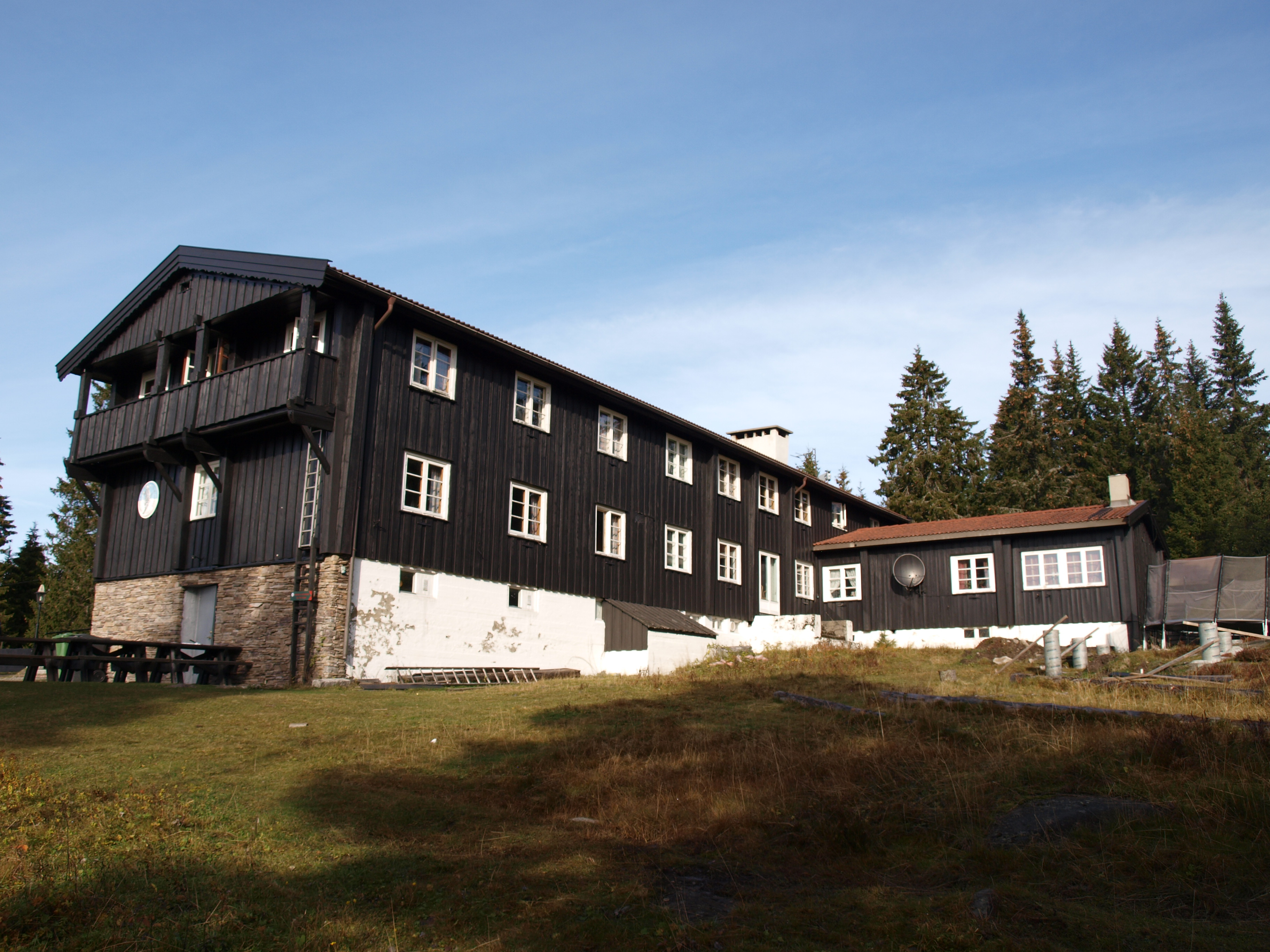 Løvlia, a tourist cabin in Krokskogen, Nordmarka, Norway.